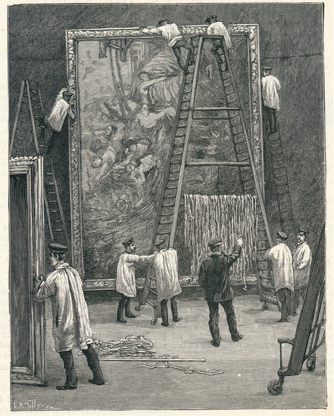 Les coulisses du Salon by Alexis Lemaistre, A. Tilly, engraver.